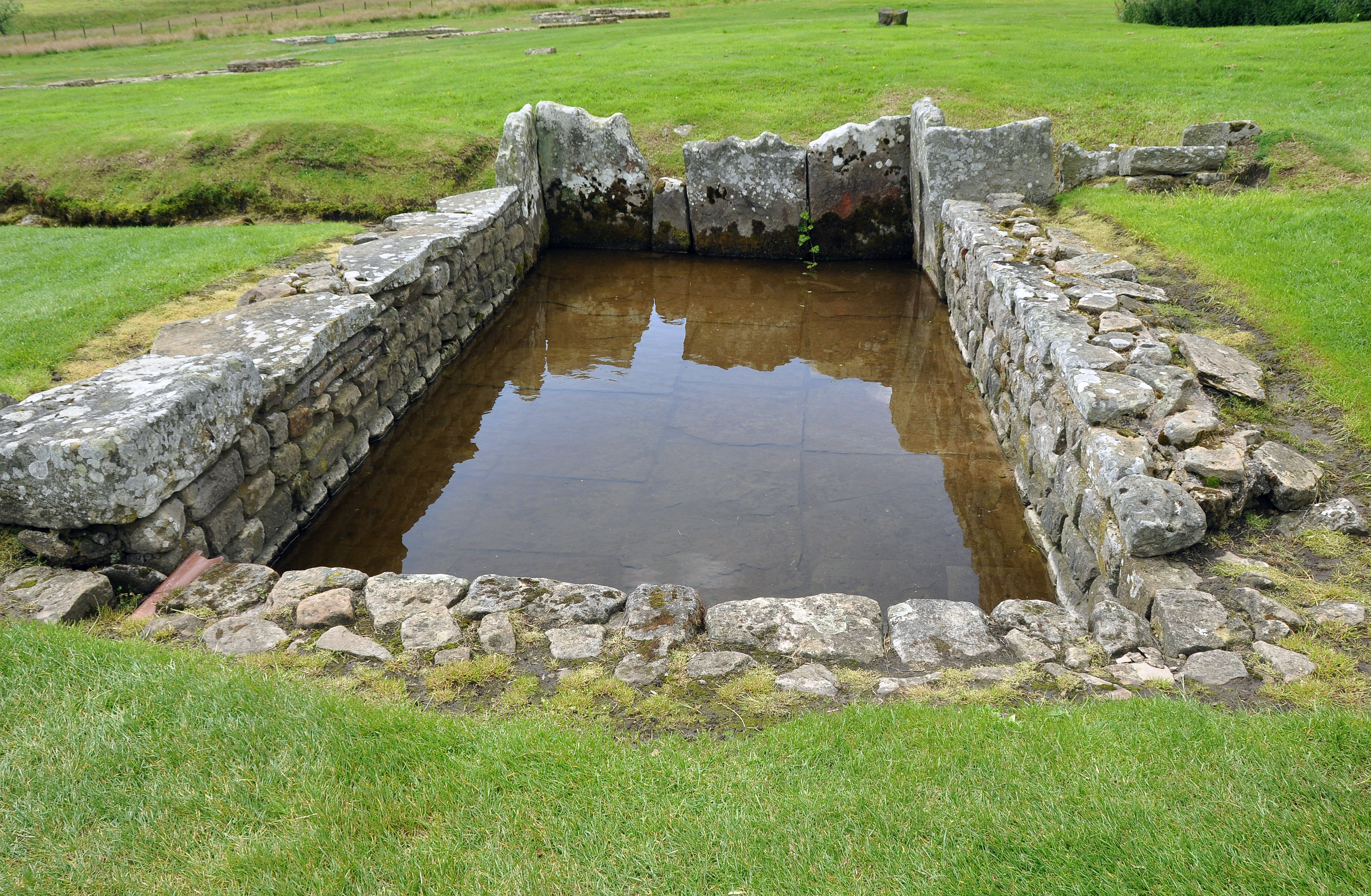 Roman water tank at Vindolanda, Northumberland.